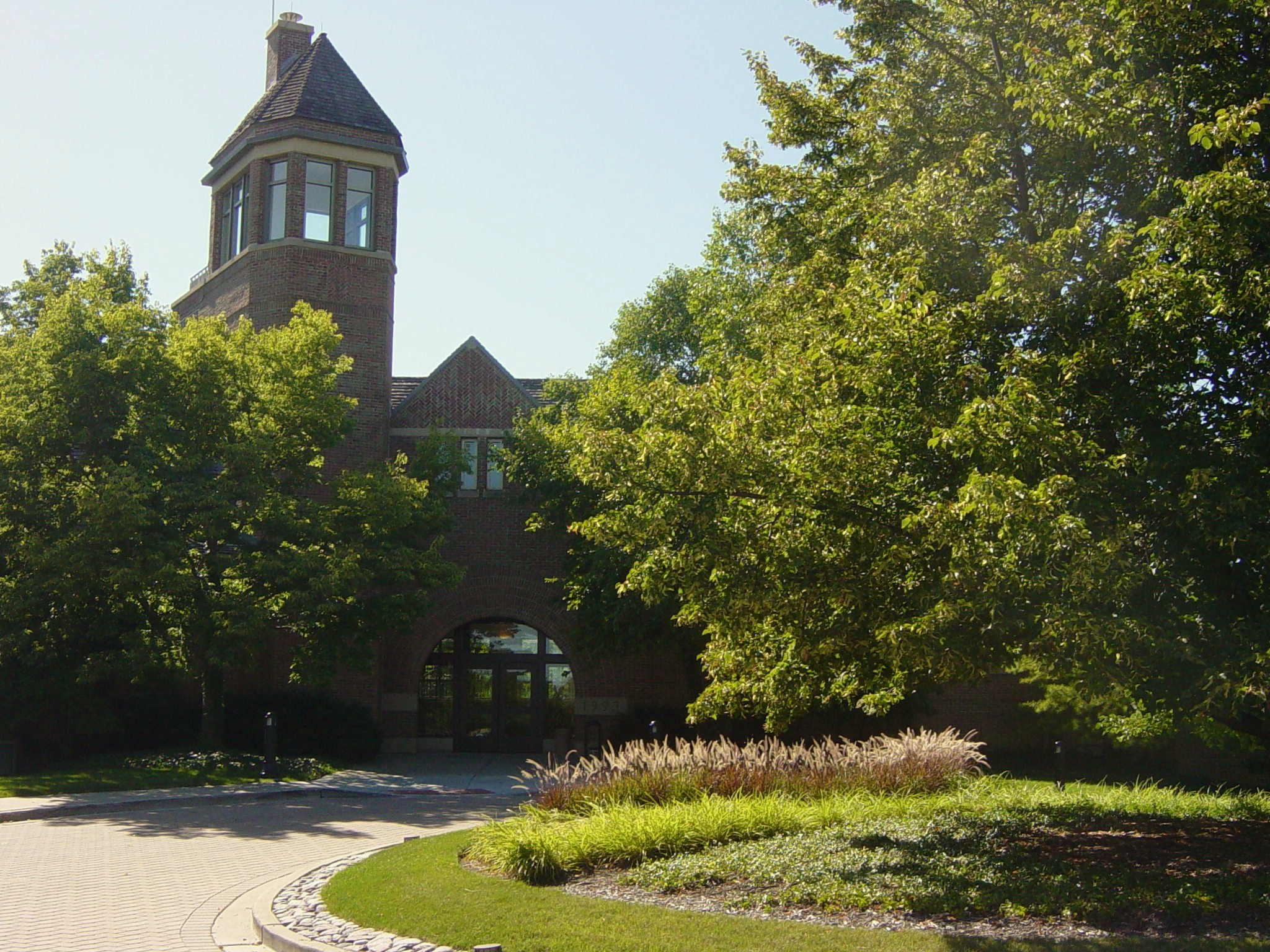 A photo of the village hall of the Illinois village of Lincolnshire.